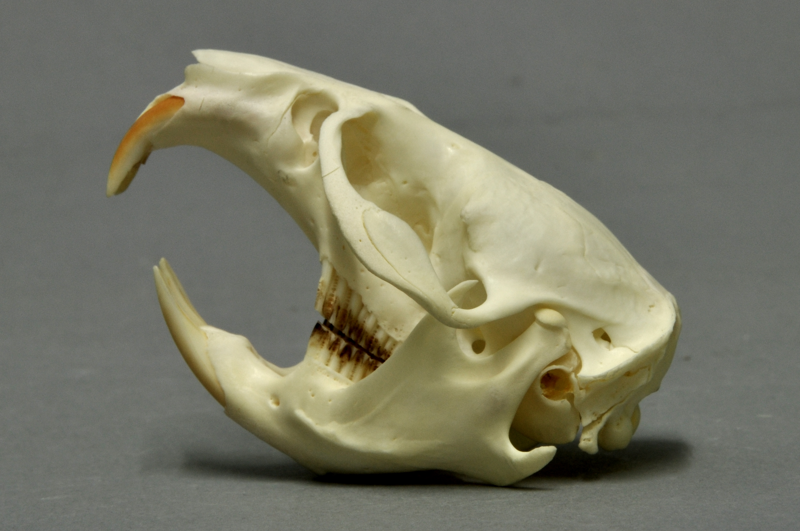 muskrat , skull, Coll. Museum Wiesbaden